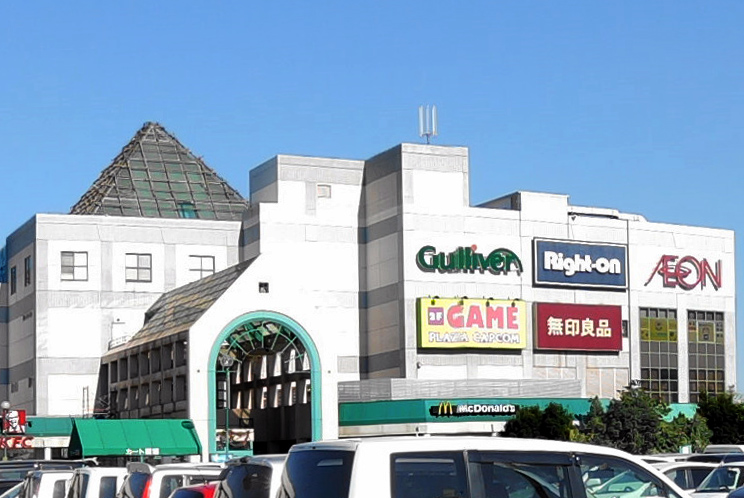 AEON MALL Futtsu,Chiba prefecture, Japan